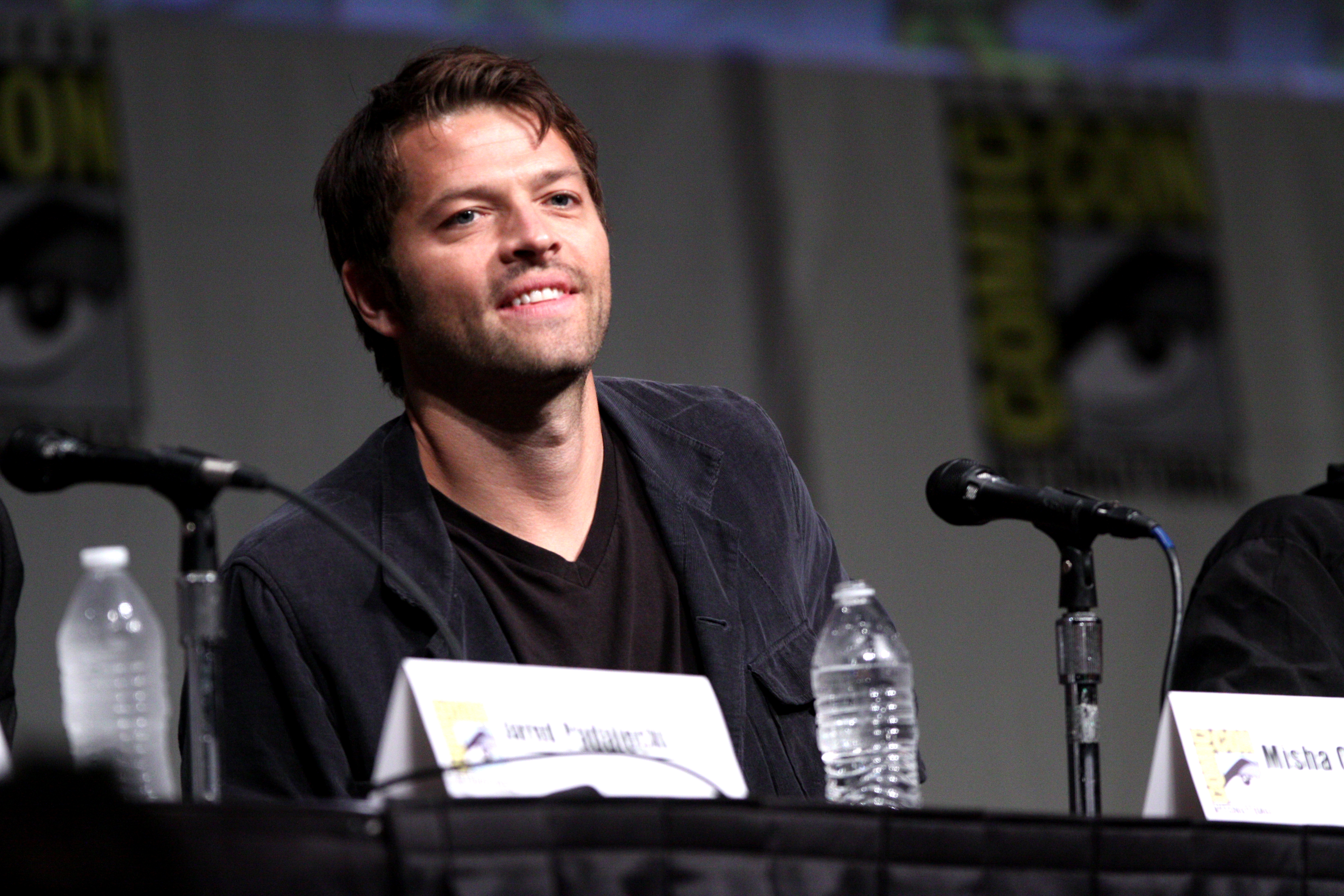 Misha Collins speaking at the 2012 San Diego Comic-Con International in San Diego, California.